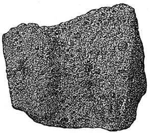 Chondrit